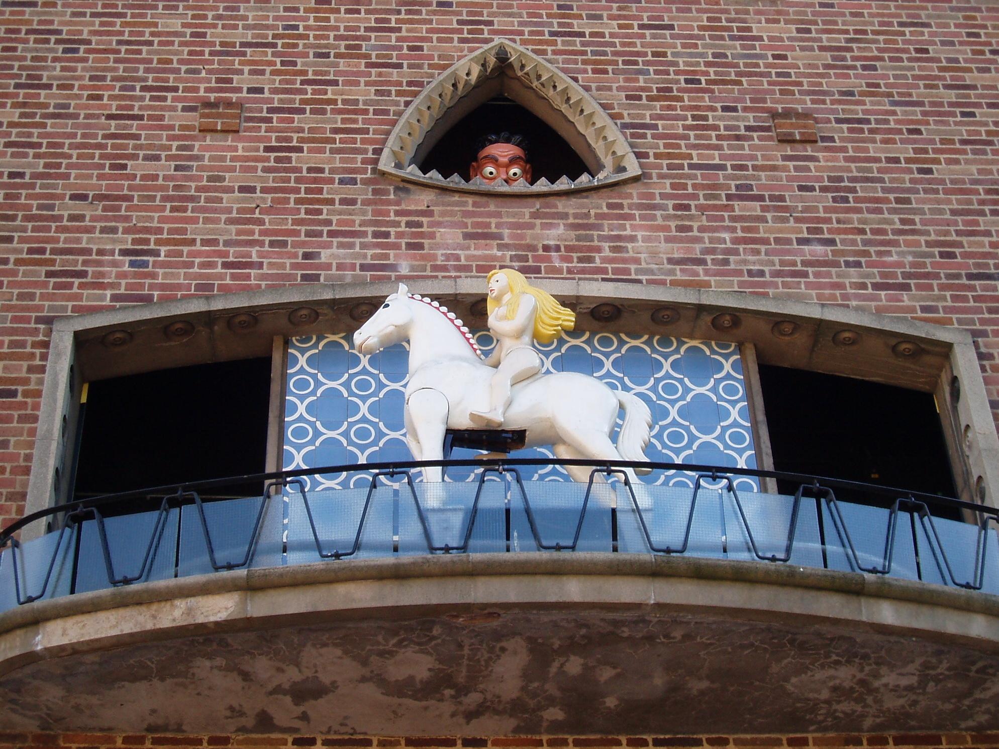 The Lady Godiva and peeping Tom clock in Broadgate, Coventry, West Midlands, England. The horse and Lody Godiva statues were made of wood by students in the 1950s.